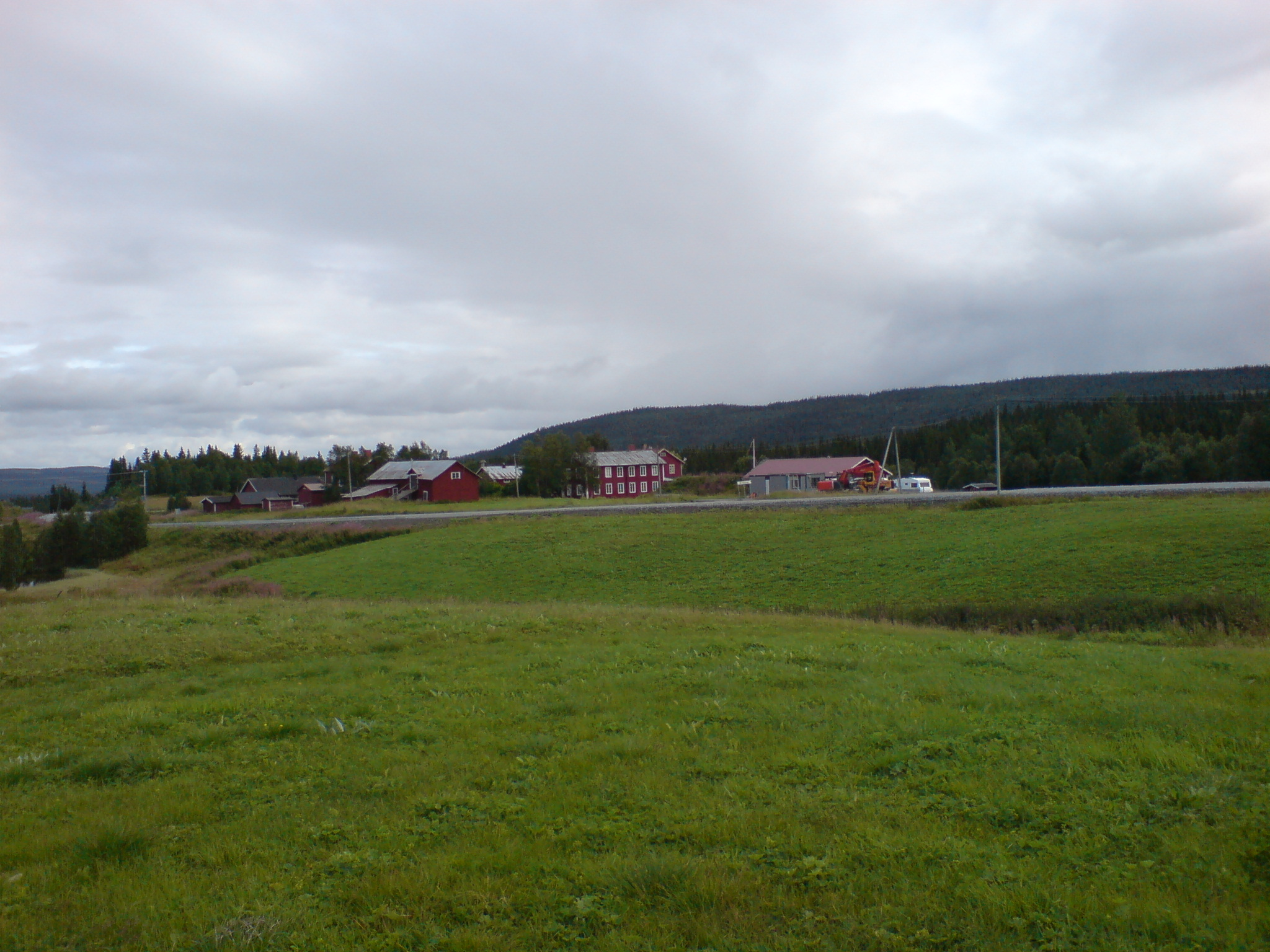 Stalltjärnstugan